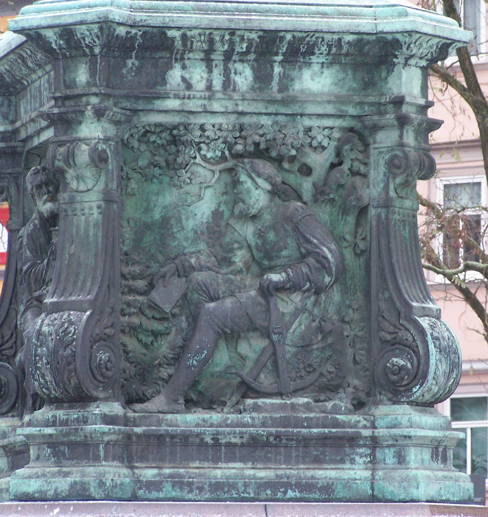 A detail at the east front of the Luther monument in Eisenach.